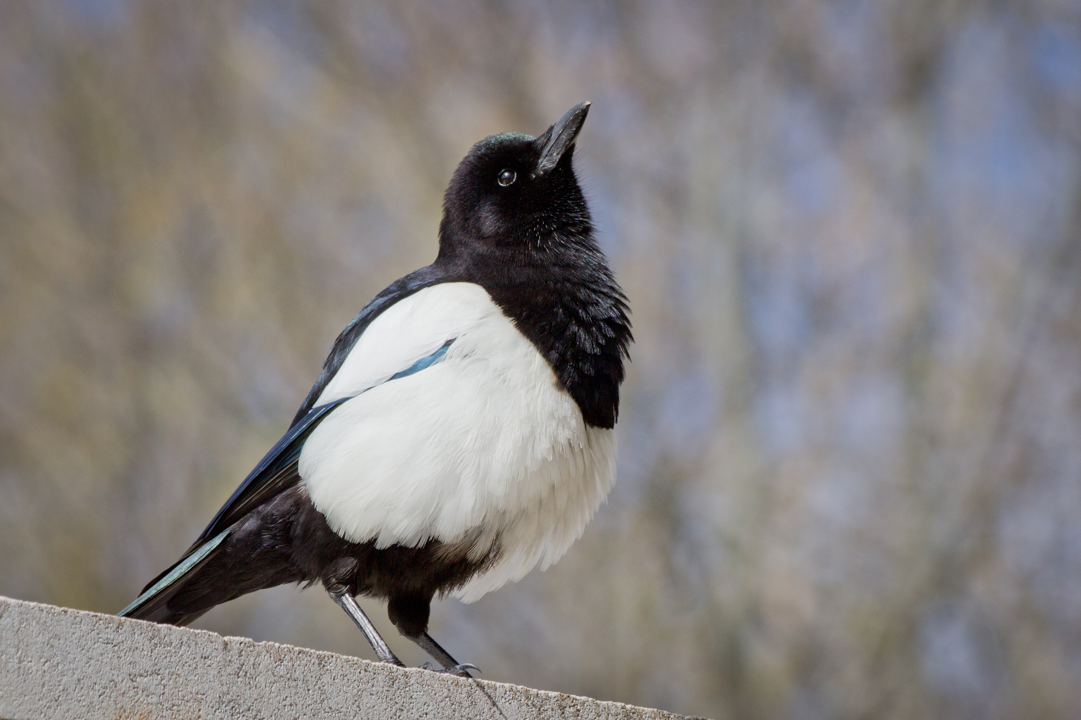 Eurasian Magpie (Pica pica) in Madrid, Spain.